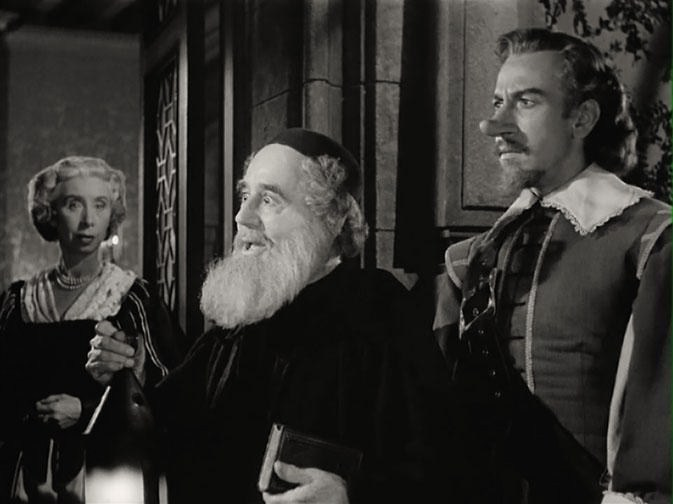 L. to R. : Virginia Farmer, Francis Pierlot and José Ferrer in Cyrano de Bergerac